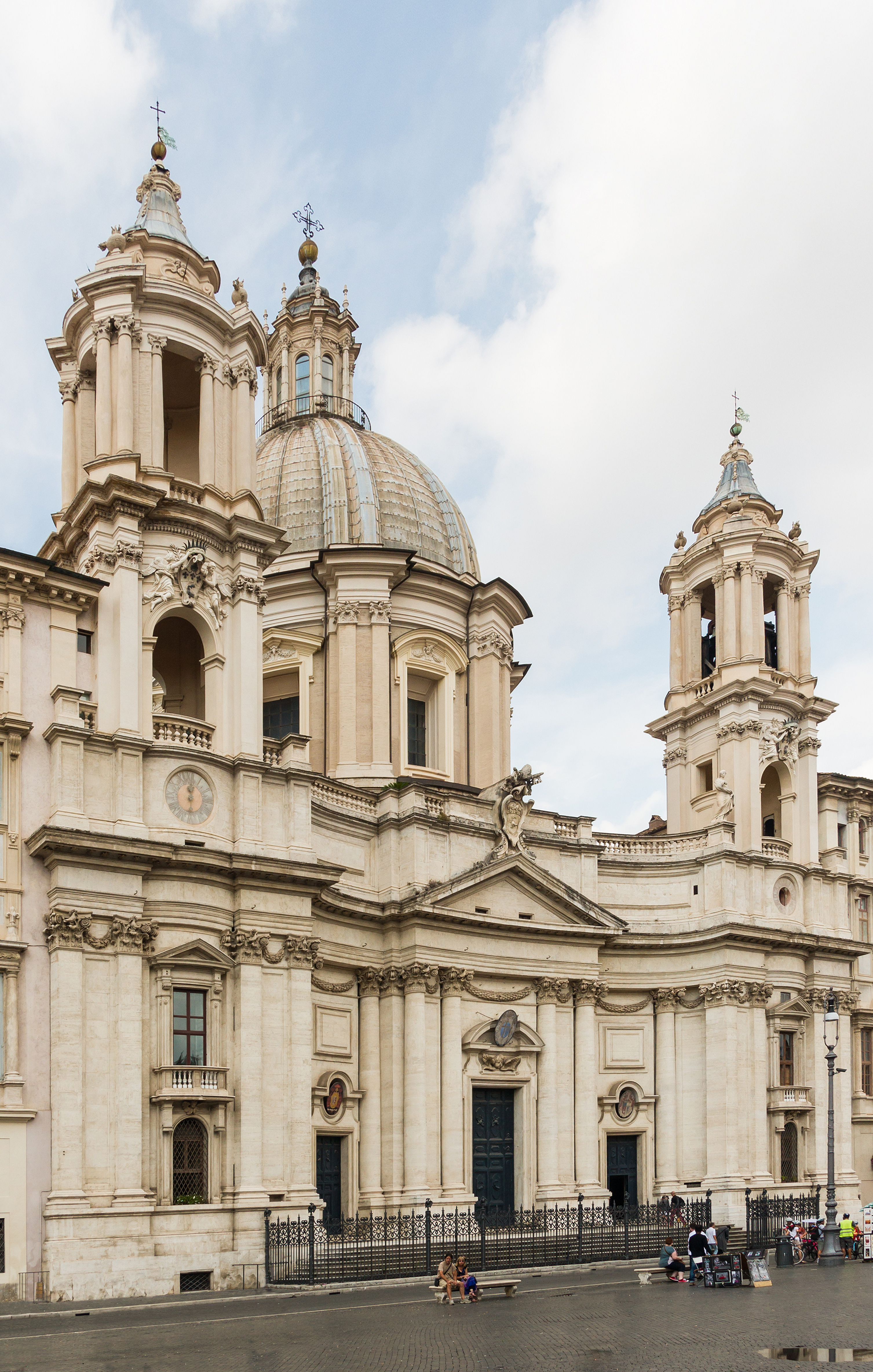 Sant'Agnese in Agone facade, Rome, Italy